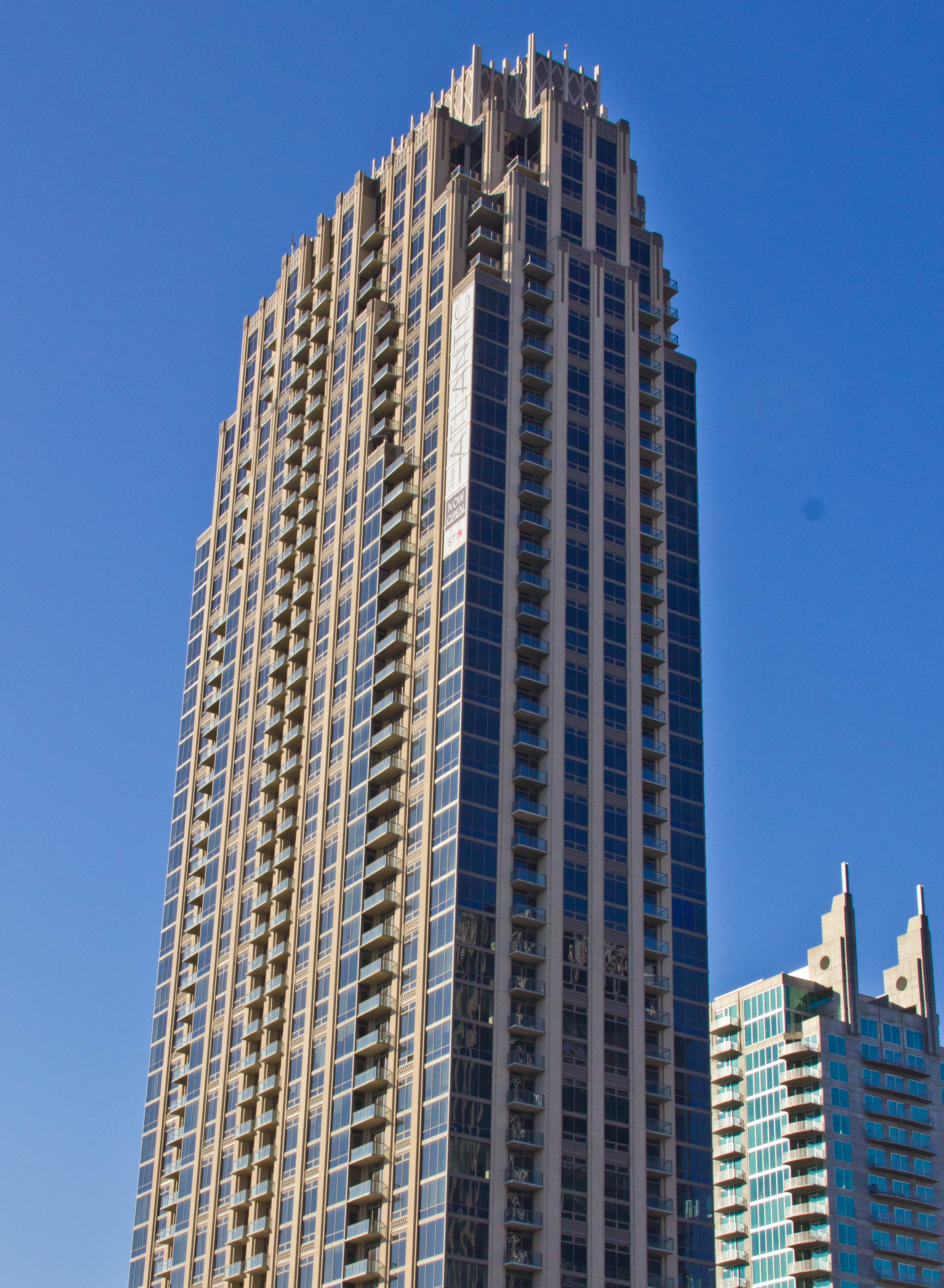 Feel free to use this image, just link to